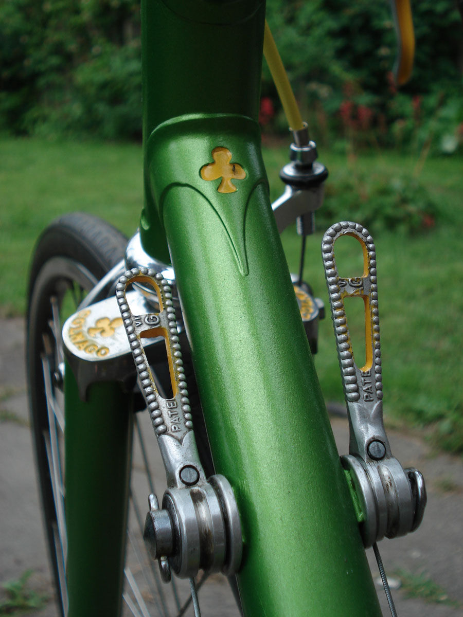 Columbus Steel Bicycle Tubing / Italian made